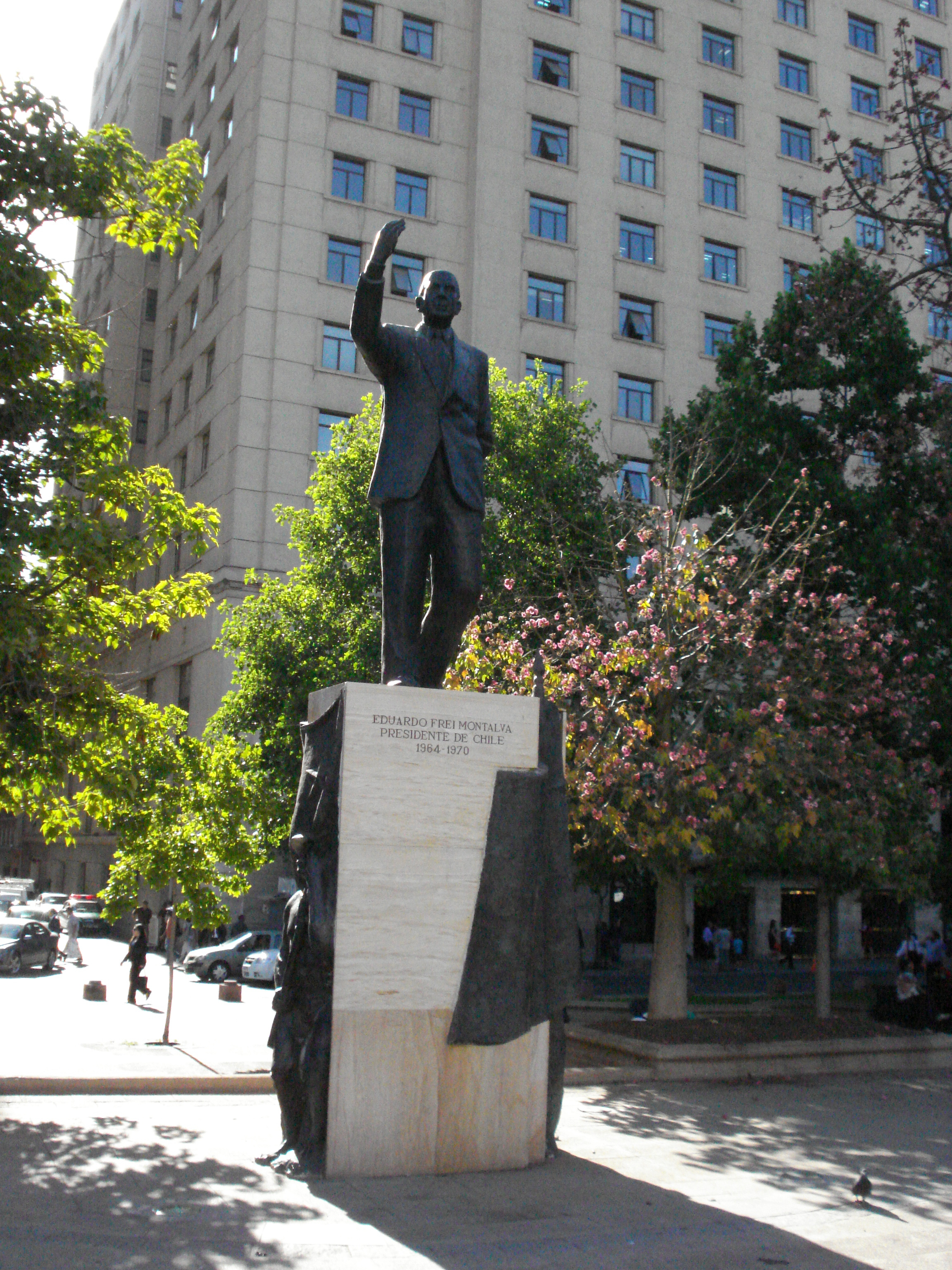 Statue of Eduardo Frei Montalva in front of the Palacio de la Moneda.